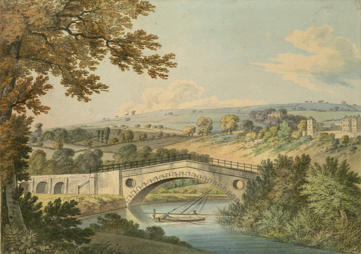 Newton Bridge near Bath drawn c.1806